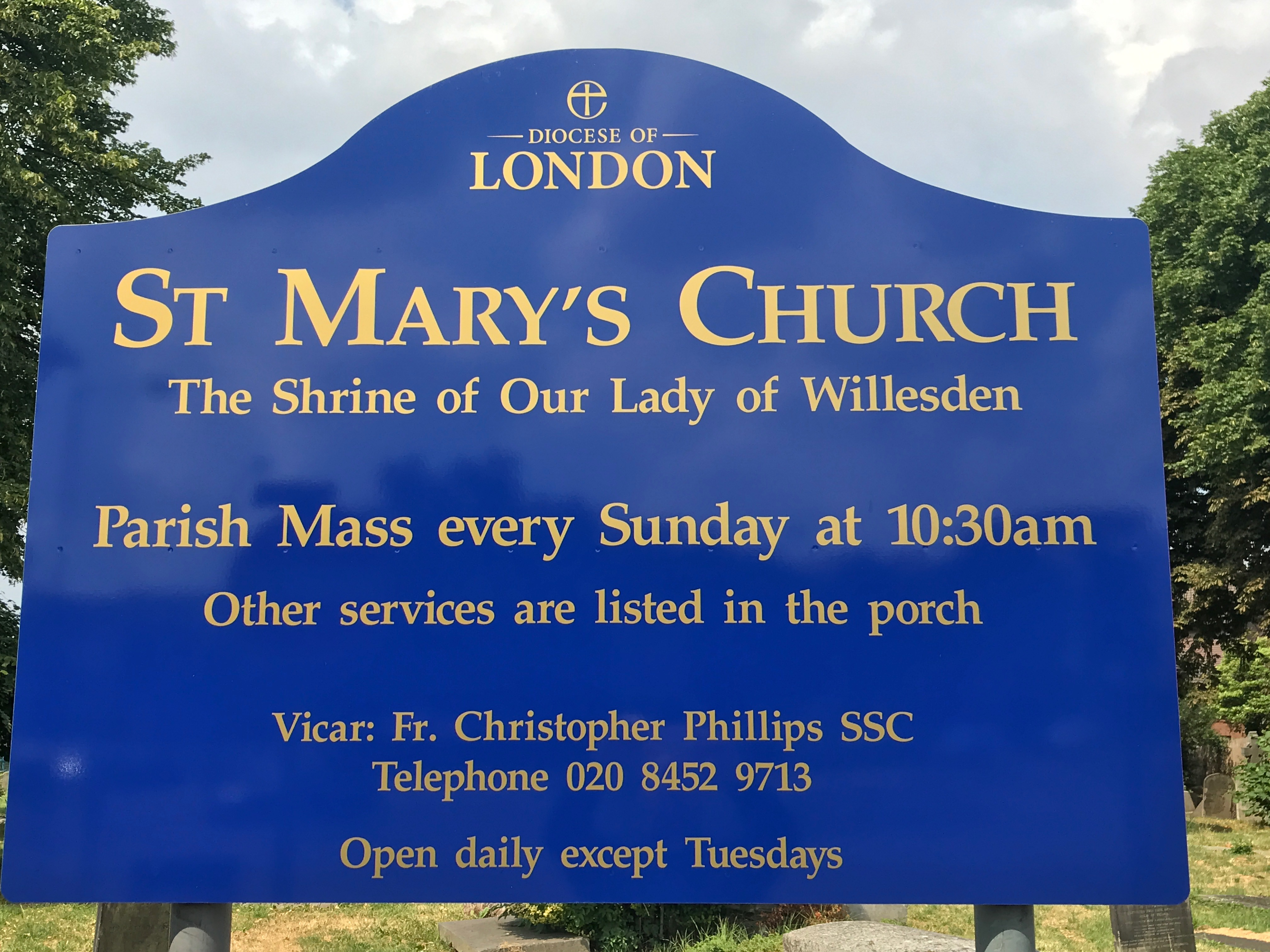 The main signage at the entrance to St Mary's Church and the Shrine of Our Lady of Willesden, London.